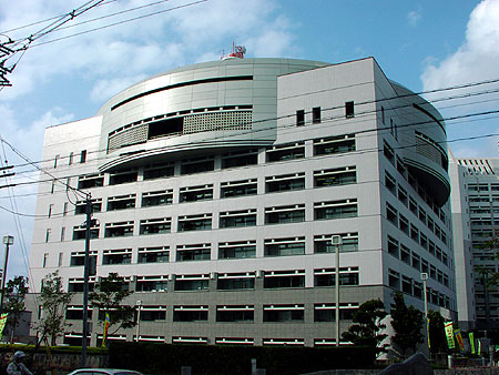 Okinawa Prefectural Police Headquarters